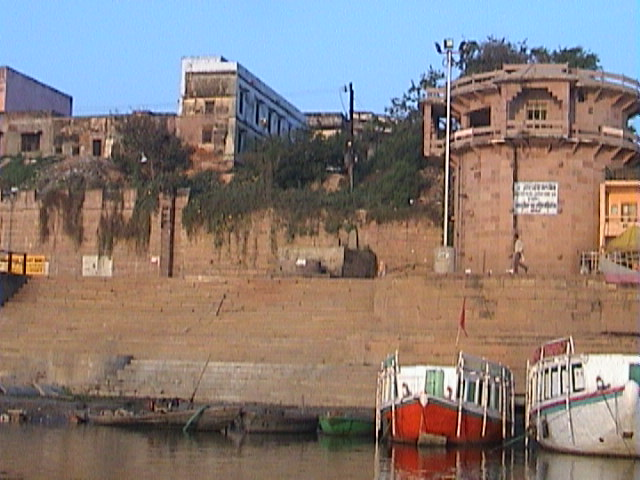 See Varanasi Development Cooperation Handbook/Stories/Responsible Development - Varanasi The Varanasi Heritage Dossier Kautilya Society Play media Vrinda Dar - How we got involved in heritage protection of Varanasi